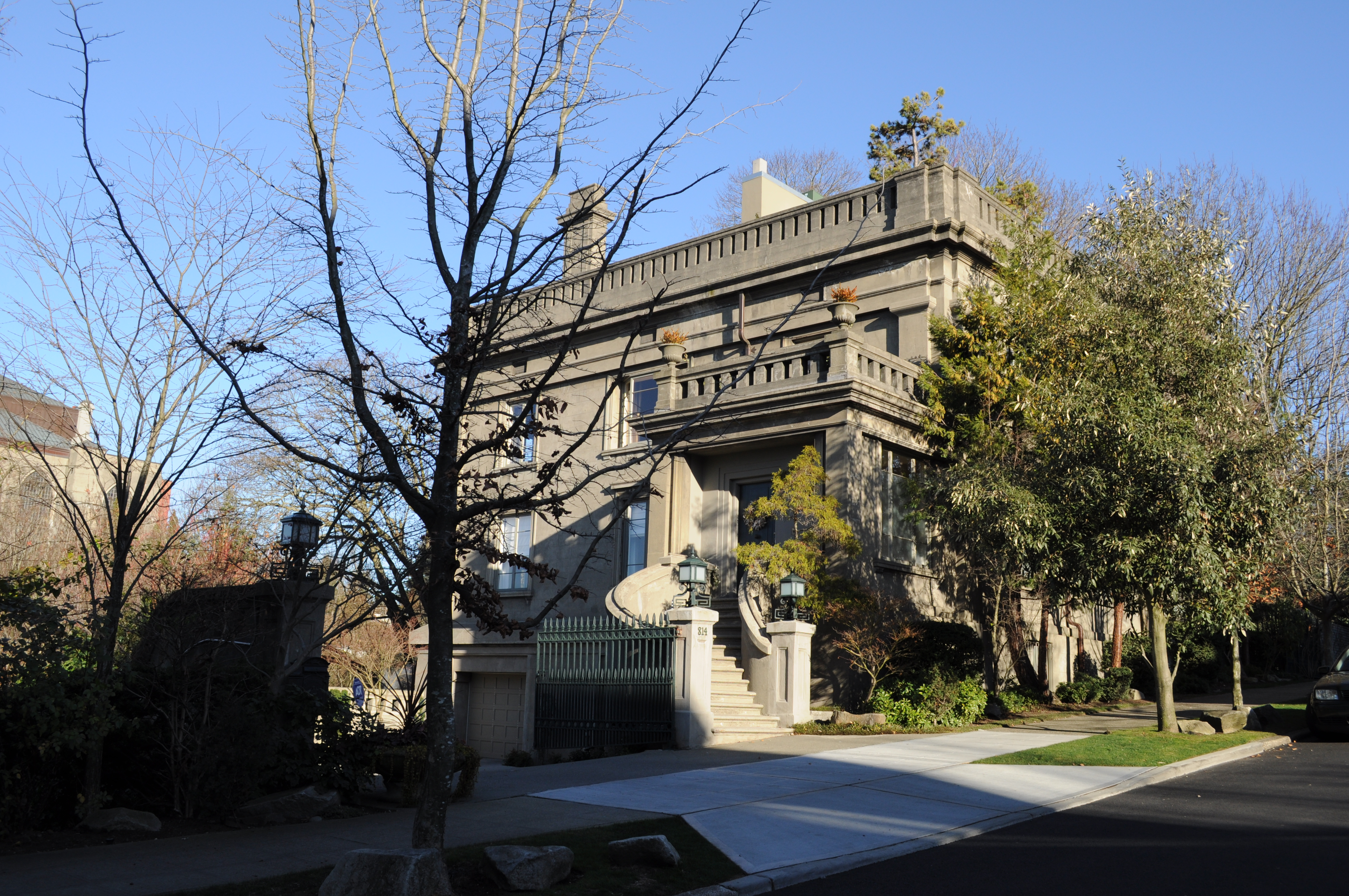 This concrete house on E Highland Drive in the Harvard Belmont Landmark District, Capitol Hill, Seattle, Washington, was built in 1910 for transportation magnate Samuel ("Sam") Hill. Architects: Hornblower and Marshall, based in Washington, D.C. Both the house itself and the neighborhood are listed on the National Register of Historic Places.